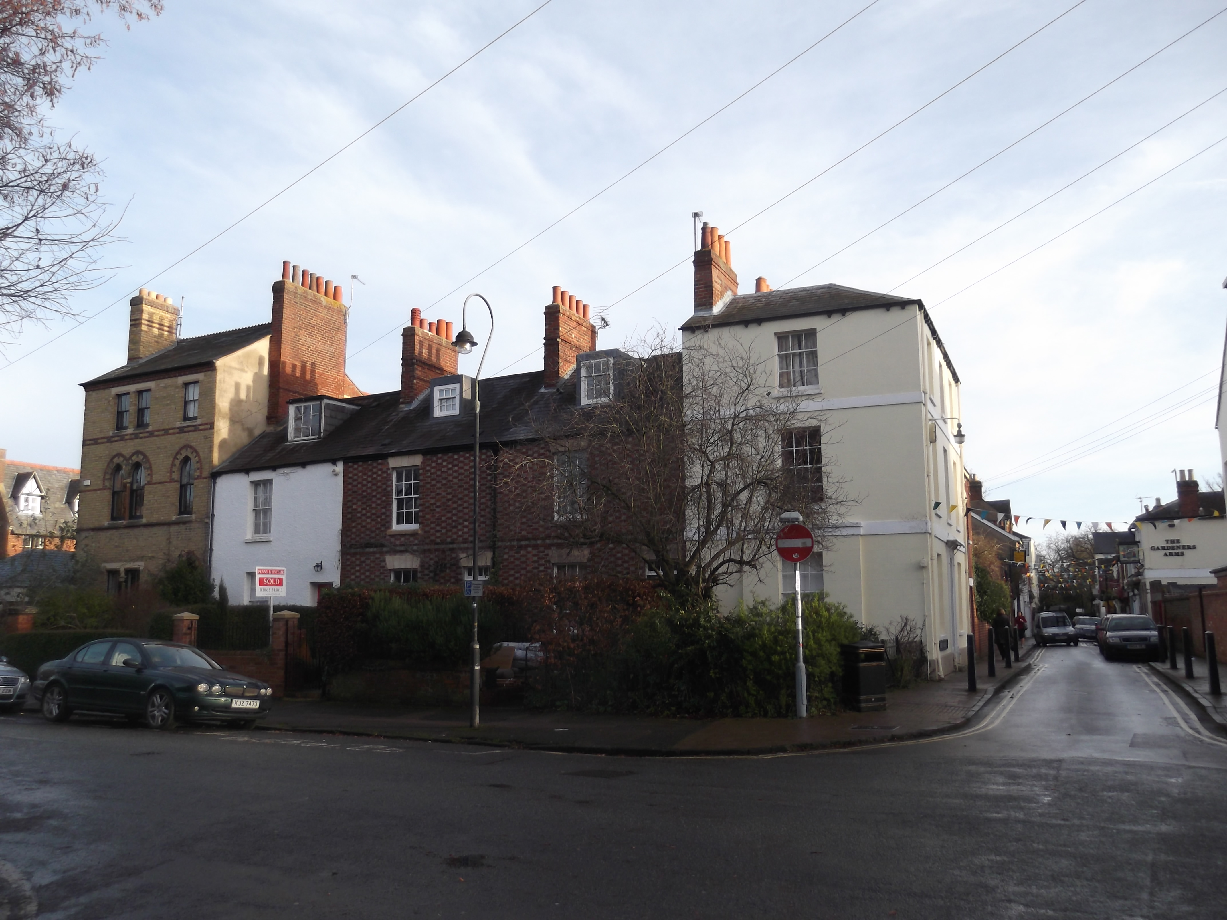 Houses on the east side of Winchester Road and view down North Parade from the end of Church Walk in North Oxford, England.